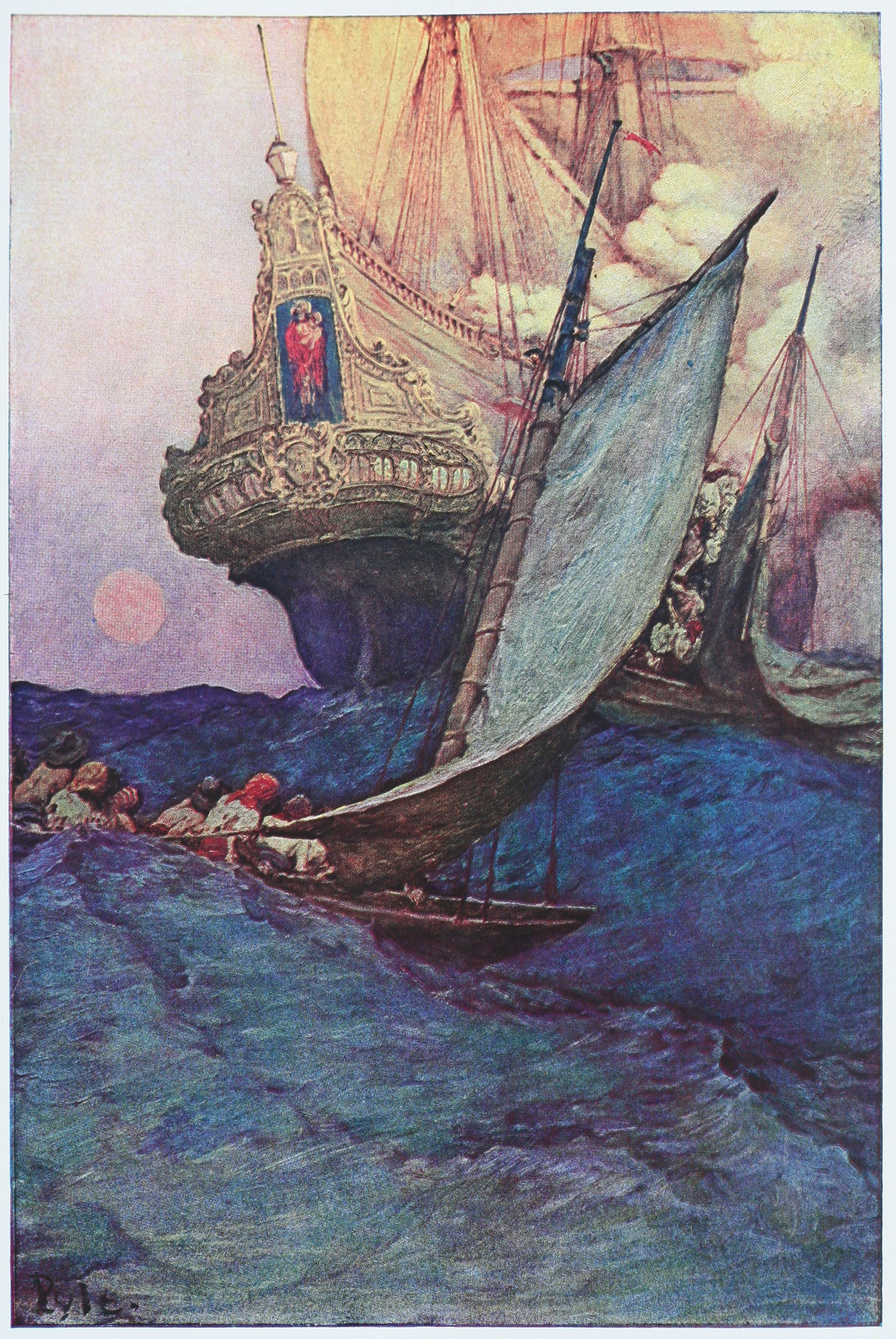 An Attack on a Galleon: illustration of pirates approaching a ship